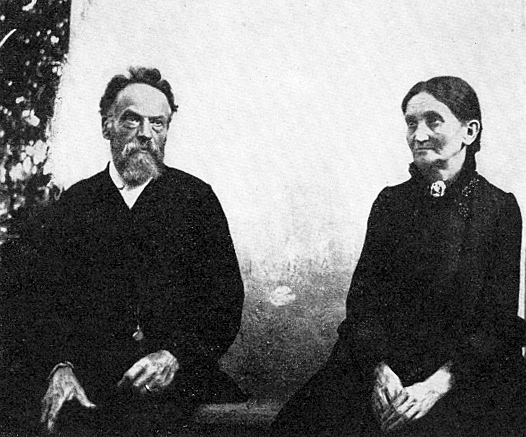 Johann Traugott Zille and his wife Ernestine Louise (Parents of Heinrich Zille)